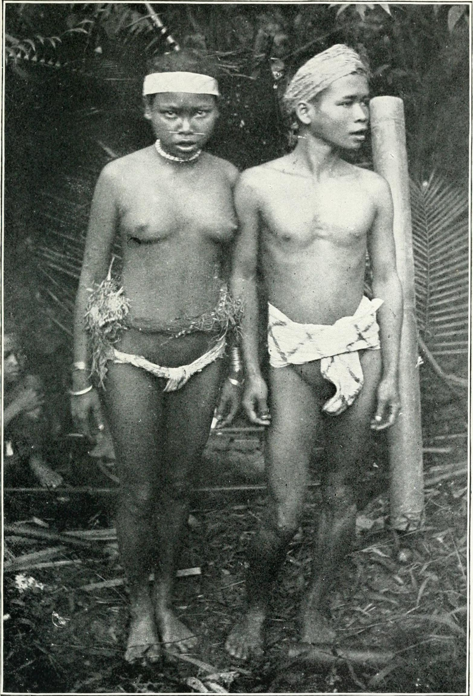 Title: Pagan races of the Malay Peninsula Year: 1906 (1900s) Authors: Skeat, Walter William, 1866- Blagden, Charles Otto, 1864-1949 Subjects: Ethnology -- Malay Peninsula Malays (Asian people) Malay Peninsula -- Social life and customs Malay Peninsula -- Religion Malay Peninsula -- Aboriginal dialects Publisher: London : Macmillan and Co., limited (etc., etc.) Text Appearing Before Image: of his wife, he might kill her and herparamour without any fear of the result, further thanthe possibility of their relatives avenging the deed.^ To this we may add the fuller account given byDe Morgan, who tells us that the husband acquiredabsolute power over his wife, and would not shrinkfrom beating her if the provocation were great 1 Ethnol. Notizblait, i. 4-6. ^ngia, as these latter would not only be - Z.f. E. xxvi. 154. Mr. II. N. rather brown than black, but would beef Kidley (of Singapore) suggests that these a uniform colour. ^ Notizblatt, i. 4-6. alleged fern-spores (as represented in the ■* Cp. Vaughan-Stevens in Z. f. E. face-paint of the Sakai) are more prob- xxviii. 174, where we are told that ably copied from the black and white the age among the Sakai was fourteen fruit-seeds which are found in the Sakai for the girl and from fifteen to sixteen necklaces and armlets. They are prob- for the man. ably not meant for fern-seeds or spor- ^ J. I. A. vol. iv. pp. 430, 431. Text Appearing After Image: Cemi/i.New LY-MAKKIED COUPLE, WOMAN WITH PAINTED HeAD-BAND AND NosE-QuiLL, Ulu Itam, Fekak. Vol. 11. /. 64.